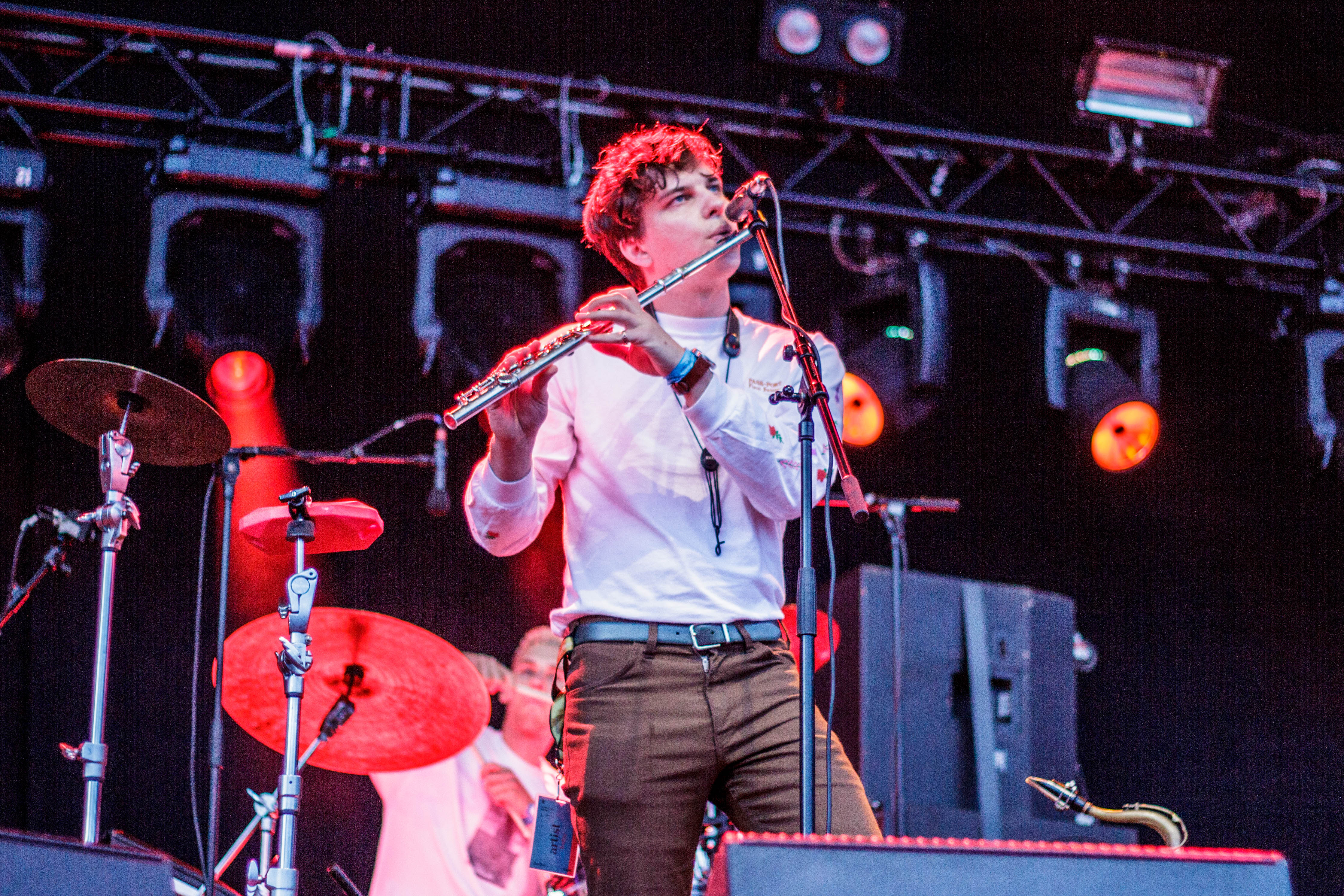 BadBadNotGood at Haldern Pop Festival 2017